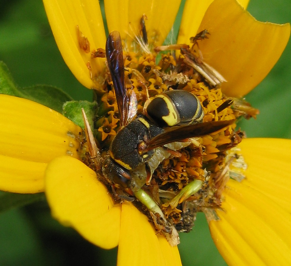 Potter wasp, Euodynerus hidalgo boreoorientalis, female, catching a caterpillar on Asteraceae flower. Pennypack Ecological Restoration Trust, Montgomery County, Pennsylvania, USA.